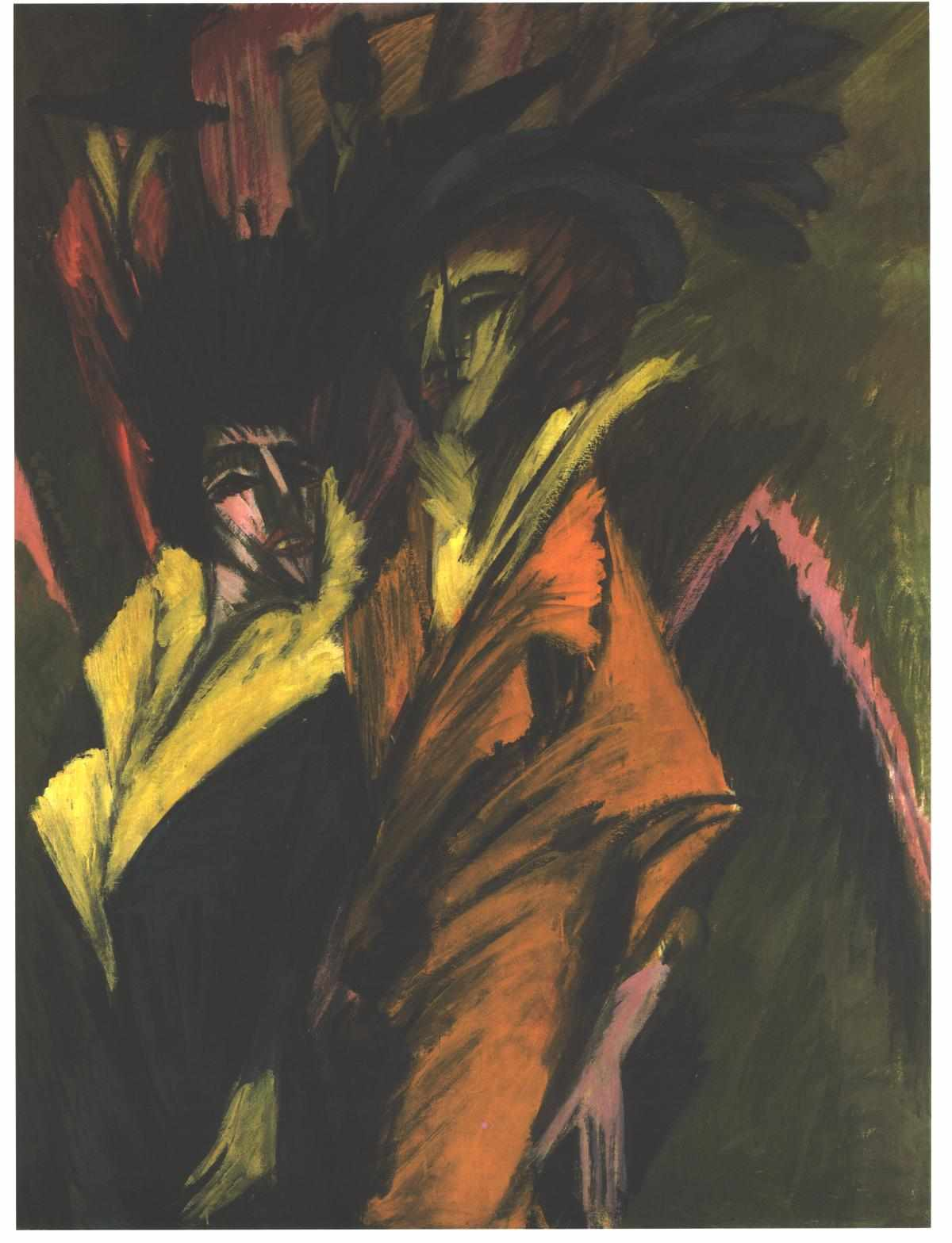 Two women at the street